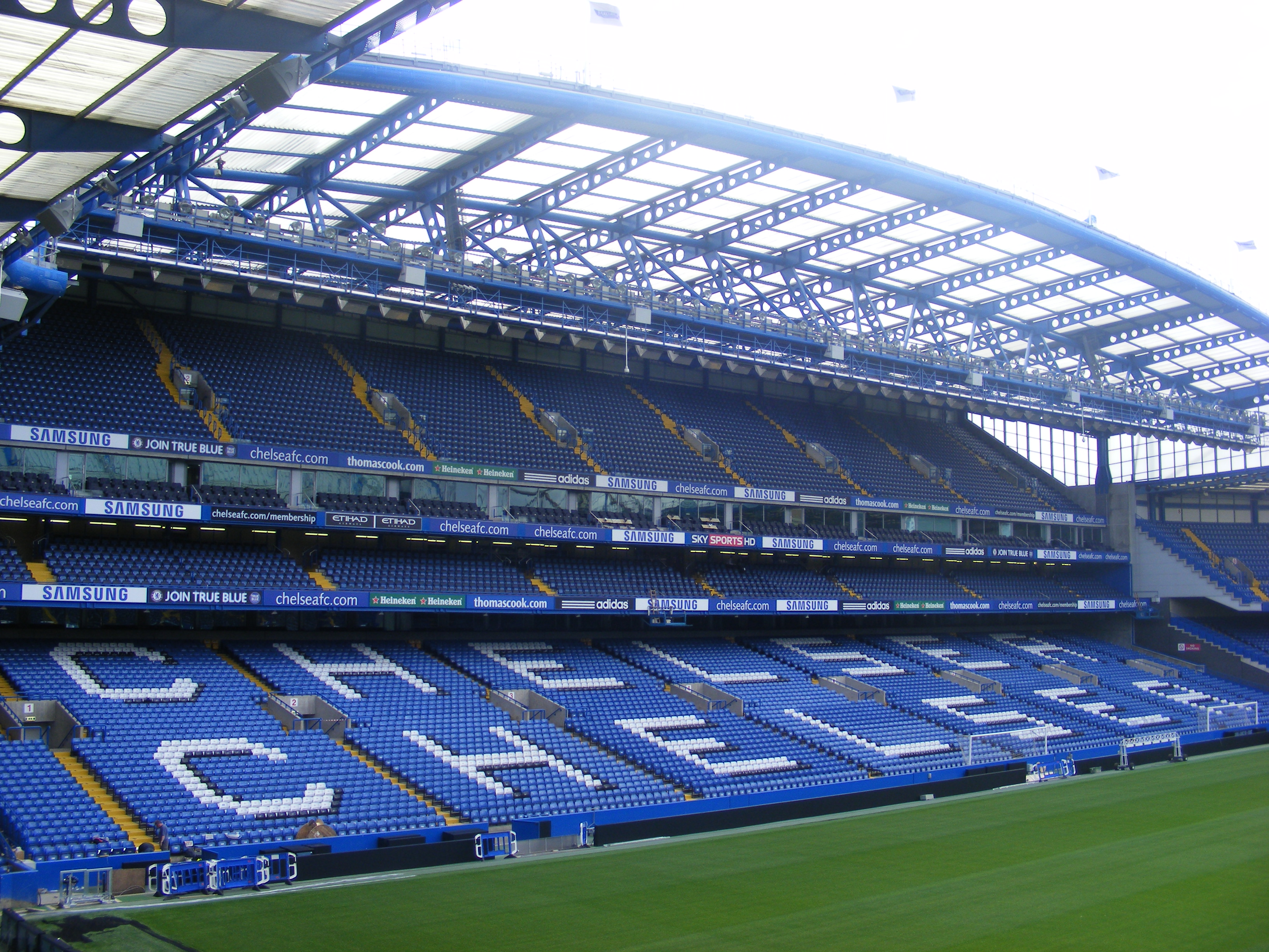 The Stamford Bridge